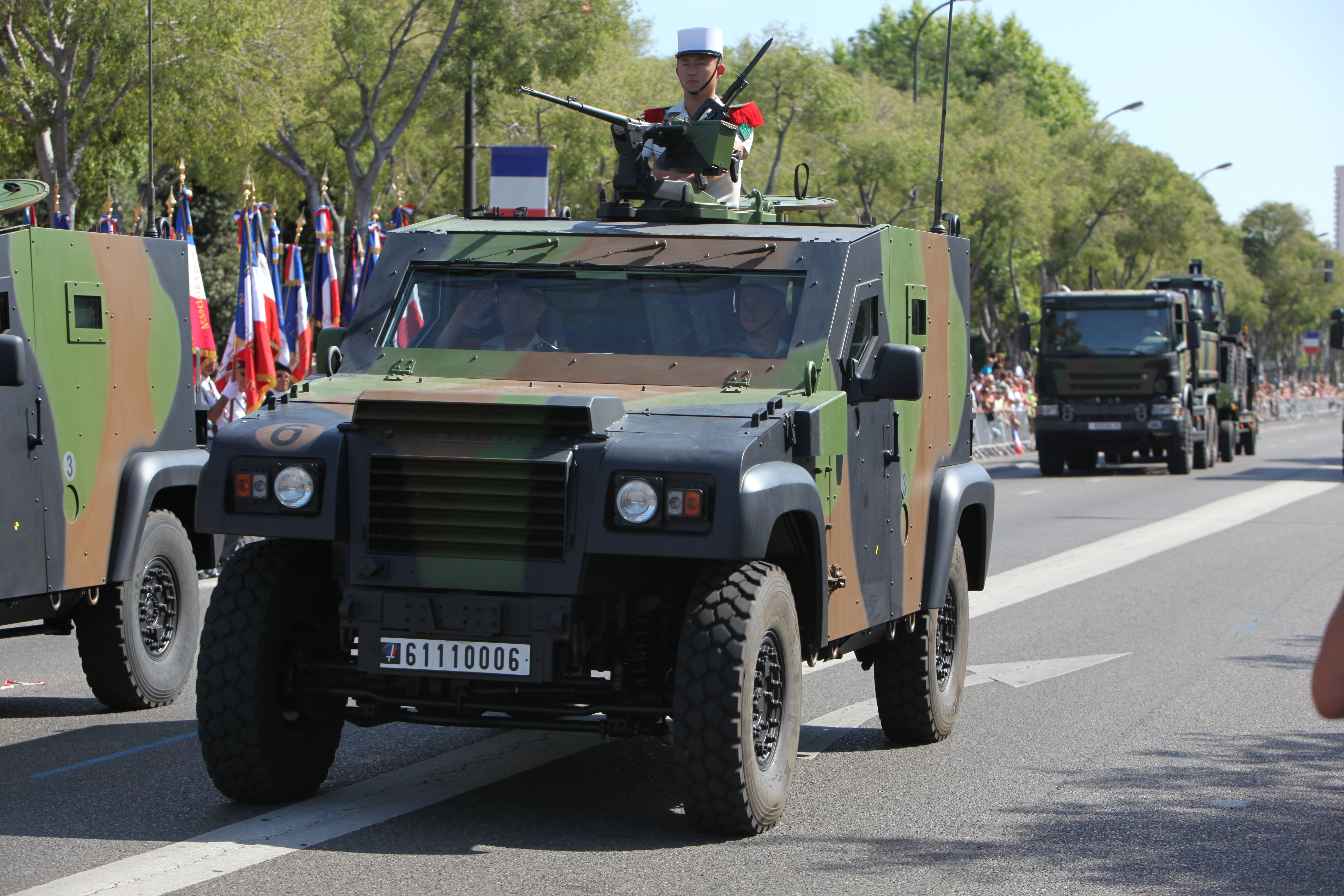 Petit Véhicule Protégé of the 2nd Foreign Engineer Regiment during the military parade of 14 July 2012 in Marseille. The making of this document was supported by Wikimédia France. (Submit your project!)